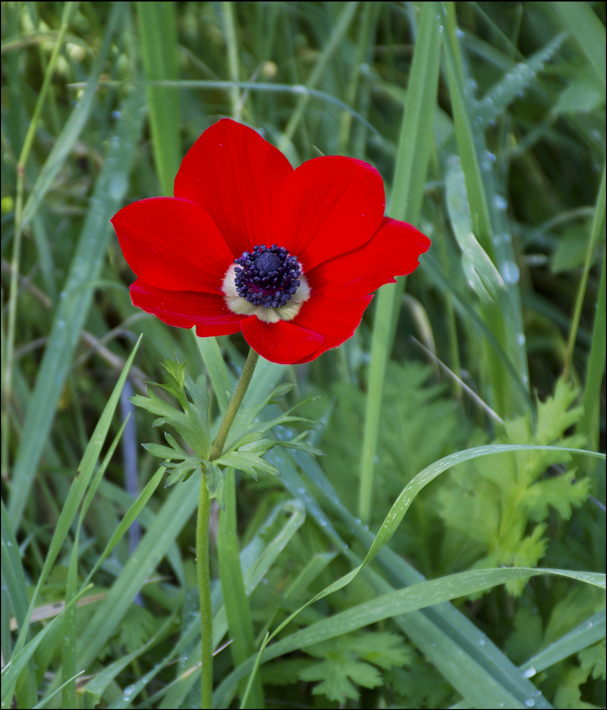 Anemone coronaria, Tal Shachar, Israel